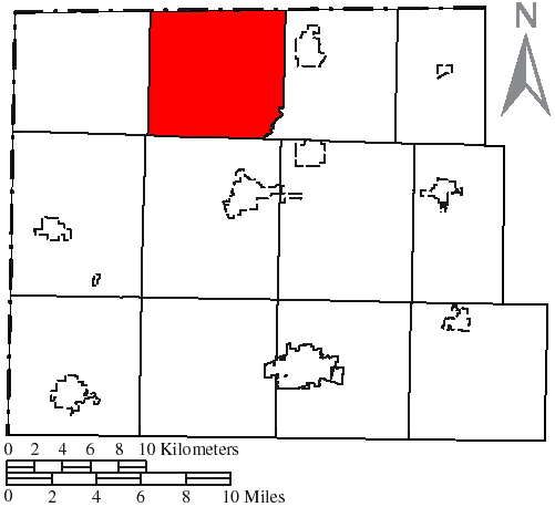 Made by the US Census and modified by myself